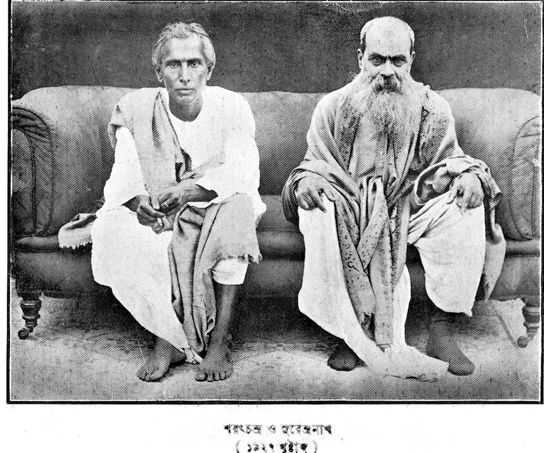 Sarat Chandra Chattopadhyaya (1876-1938) and Sarat Chandra visits Surendranath Roy 1927